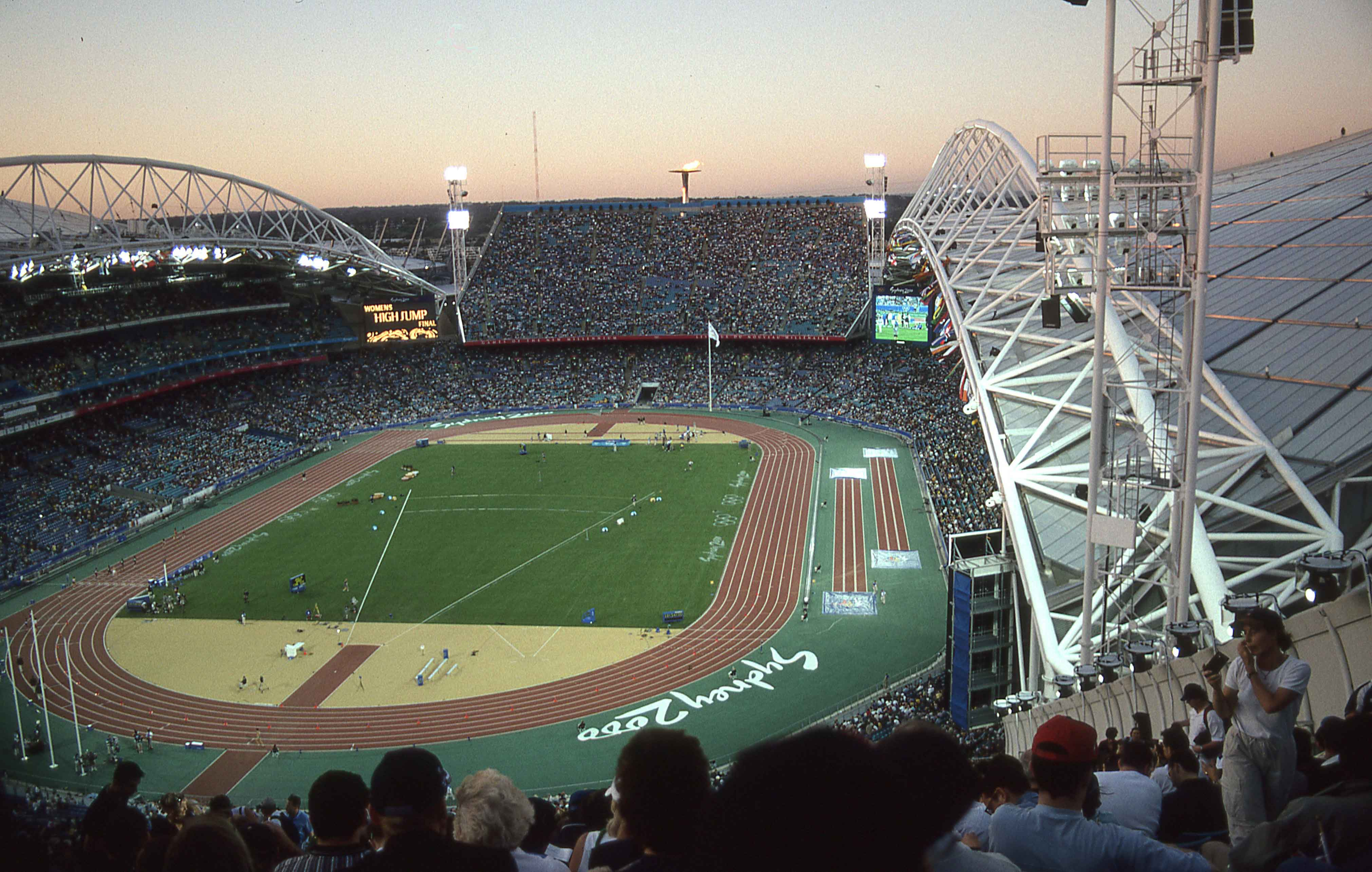 Womens long jump final, Sydney Olympics